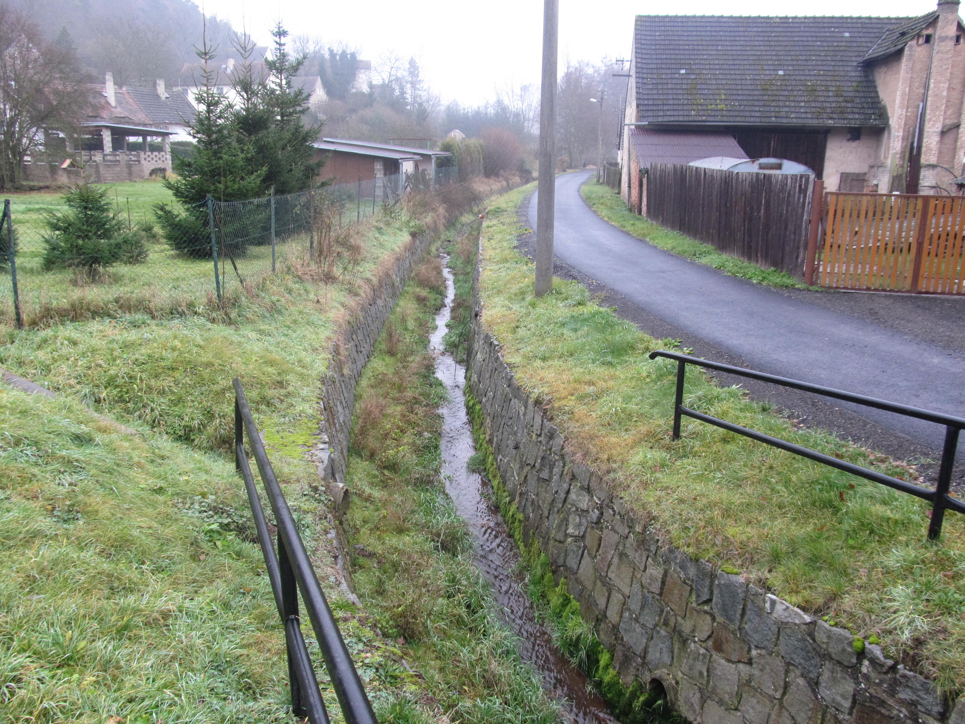 Sádecký potok in Deštnice village